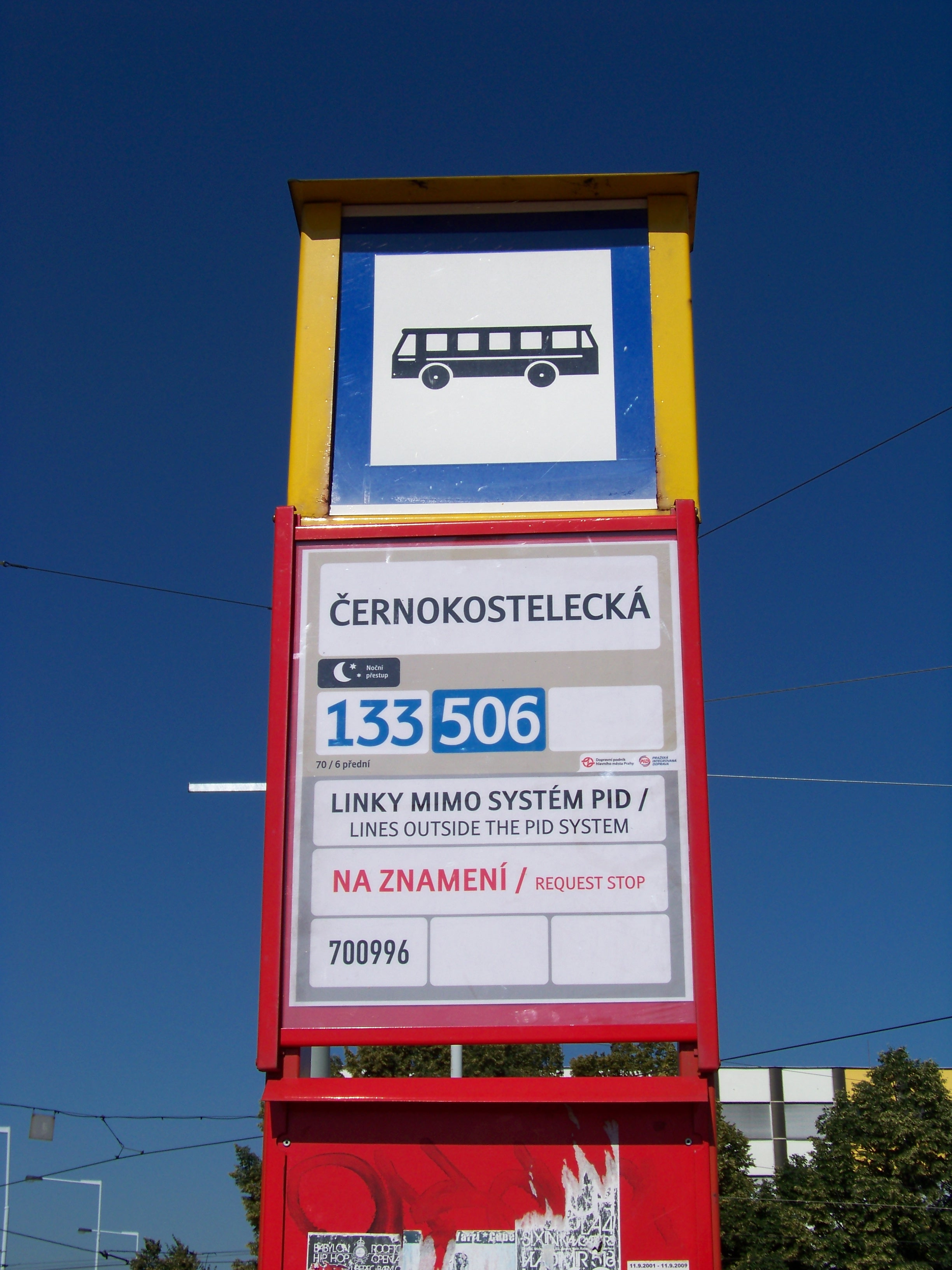 Strašnice, Prague, the Czech Republic. Černokostelecká street, a bus stop.